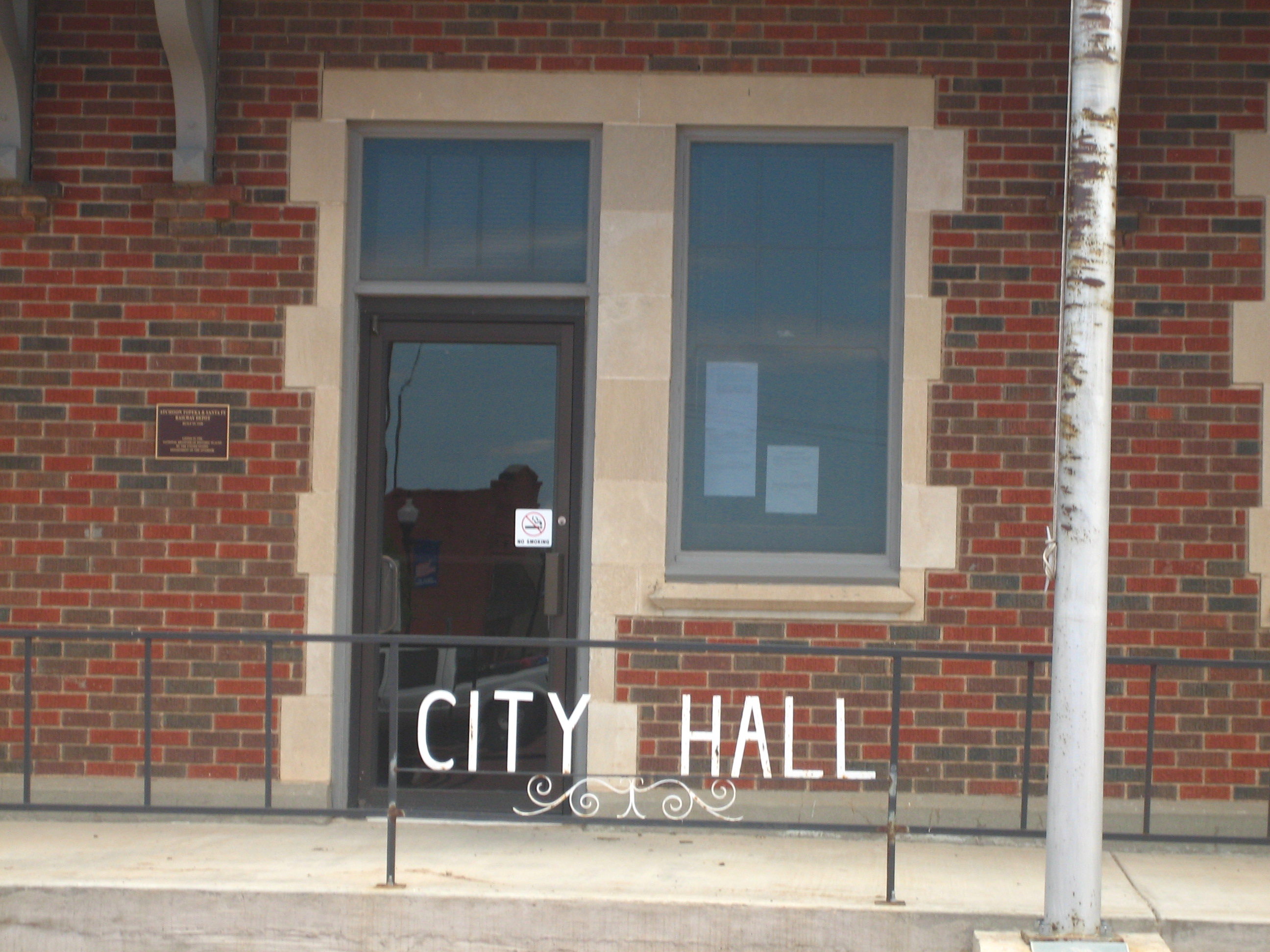 Panhandle, Texas, City Hall